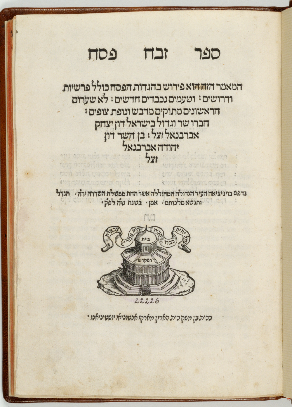 Isaac Abravanel (1437–1508): Sefer Zebach Pesacḥ. [Venice: Marco Antonio Giustiniani, 1545]. Rabbi Isaac Abravanel was an advisor at the Spanish royal court before the Jewish expulsion of 1492. He wrote this commentary on the Passover Haggadah in Italy and it was first published at Constantinople in 1506. As Venetian law did not permit Jews to own or operate printing presses, it was necessary for the financiers of this second edition to employ a Christian printer. The text of Bridwell Library’s copy was expurgated and signed by two censors who were active in Mantua during the seventeenth century, Clemente Renatto and Giovanni Domenico Carretto.